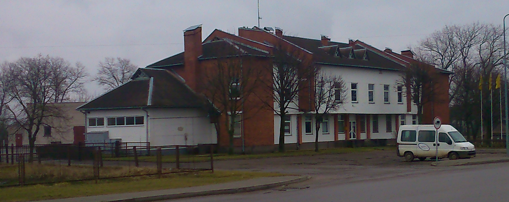 Lietuvos dujos (AB), Jonava